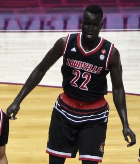 Malik Williams set a blind side pick on Nickel Alexander-Walker